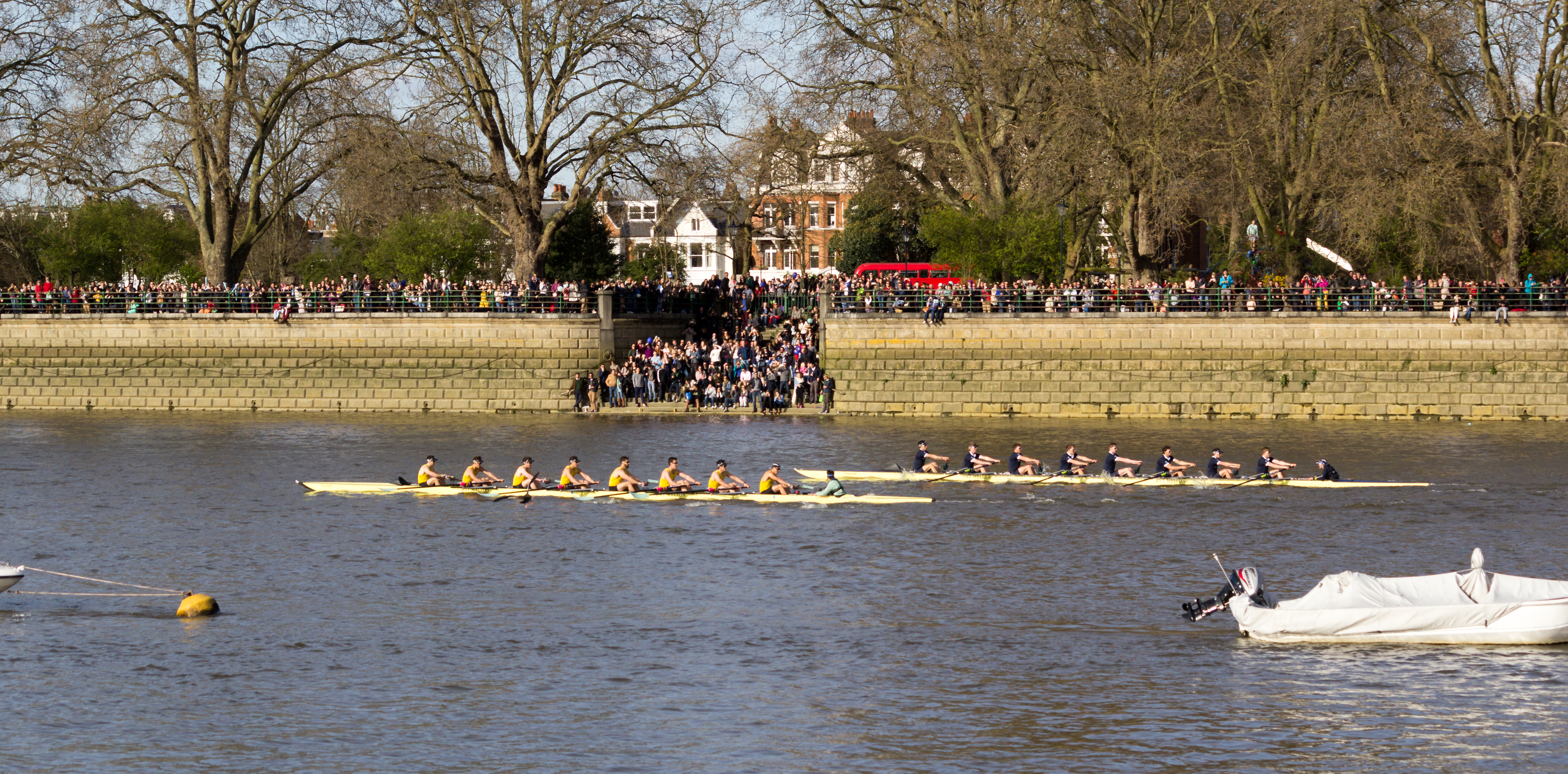 The BNY Mellon Boat Race 2015 - Reserve Race.